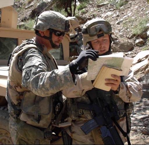 Coalition forces kill senior Taliban leader Photo by Department of the Army December 26, 2006 Soldiers in southeastern Afghanistan check their coordinates during a combat patrol.